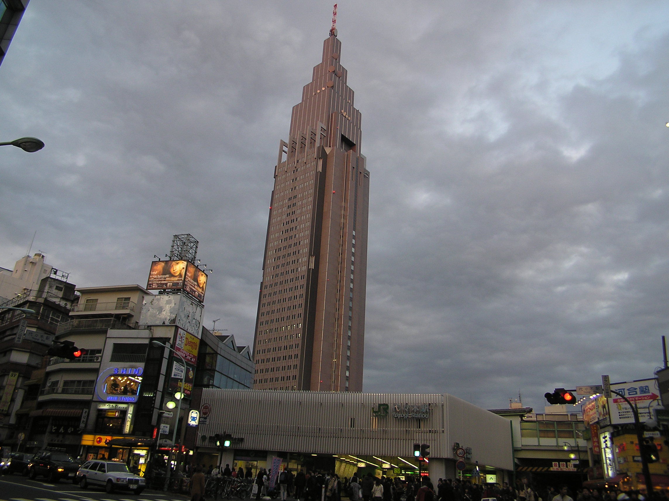 NTT DoCoMo Yoyogi Building